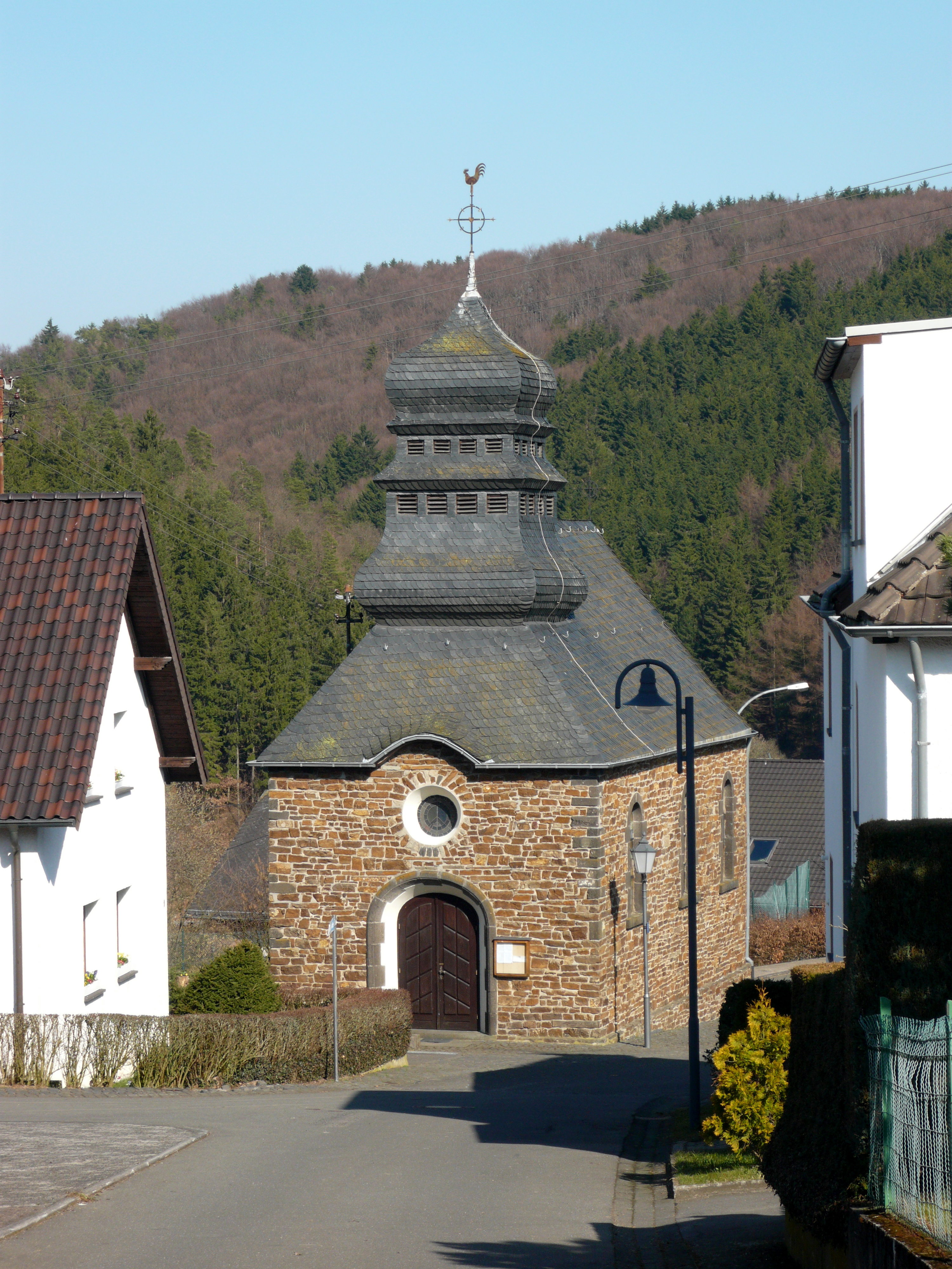 Church of Jammelshofen, Eifel